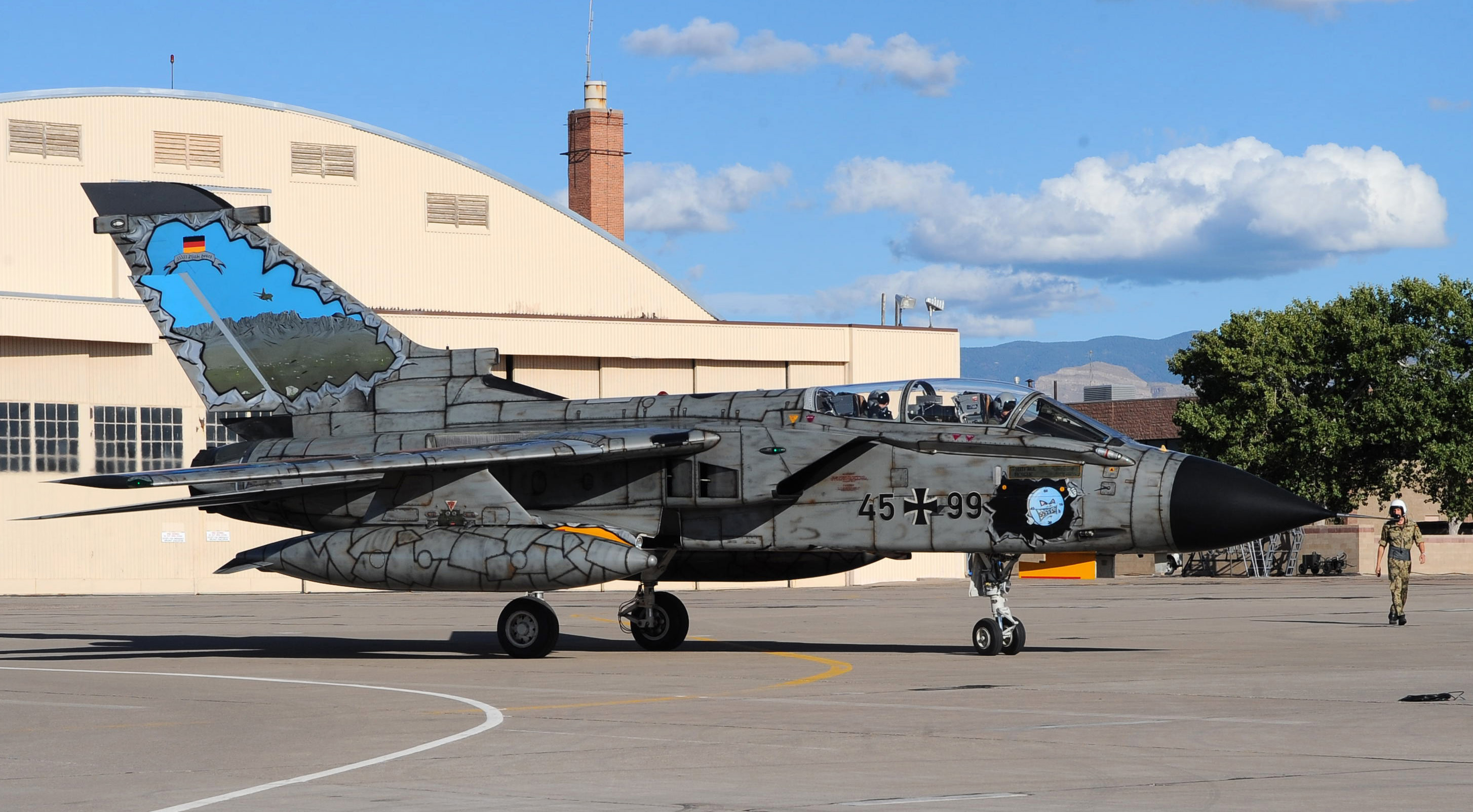 Oberst Peter Klement, German Air Force Flying Training Center commander and Col. Jeff Harrigian, USAF 49th Fighter Wing Commander, taxi their Panavia Tornado fighter (s/n 45+99) in front of the reception commemorating the 55,555th German Tornado flight hour at Holloman Air Force Base, New Mexico (USA), on 13 October 2009. Members of the German Luftwaffe and 49th FW awaited their return back to the flight line to celebrate the accomplishment.